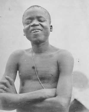 Ota Benga, at the 1904 St. Louis World's Fair, showing his sharpened teeth.